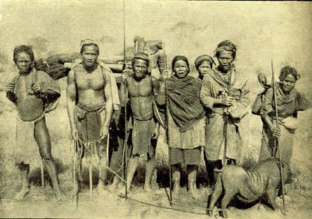 K'Ho people